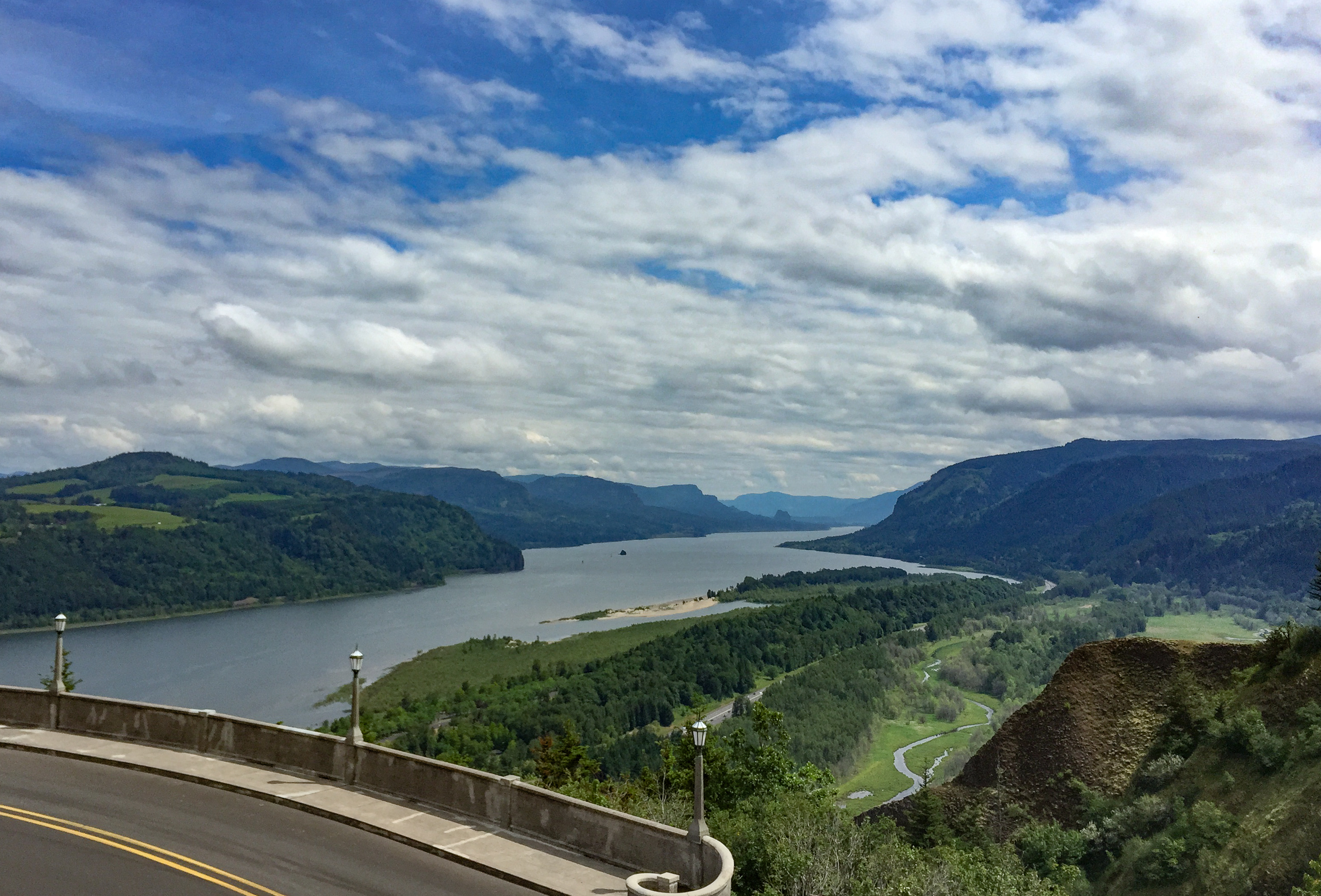 Historic Columbia River Highway / Mirror Lake - Corbett, Oregon